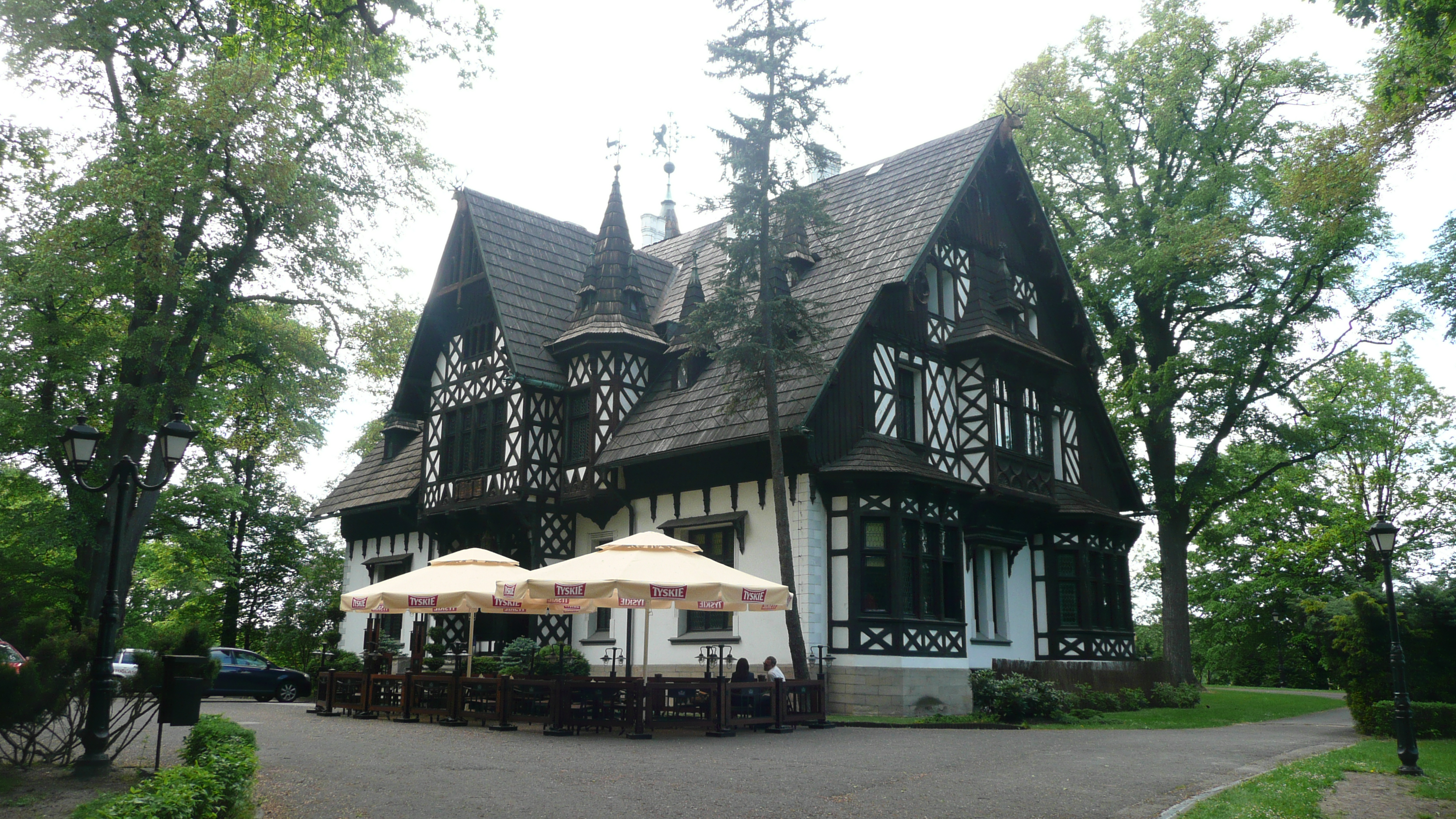 Hunting Castle / Shooting Lodge Promnice in Kobior near Tychy in Upper Silesia